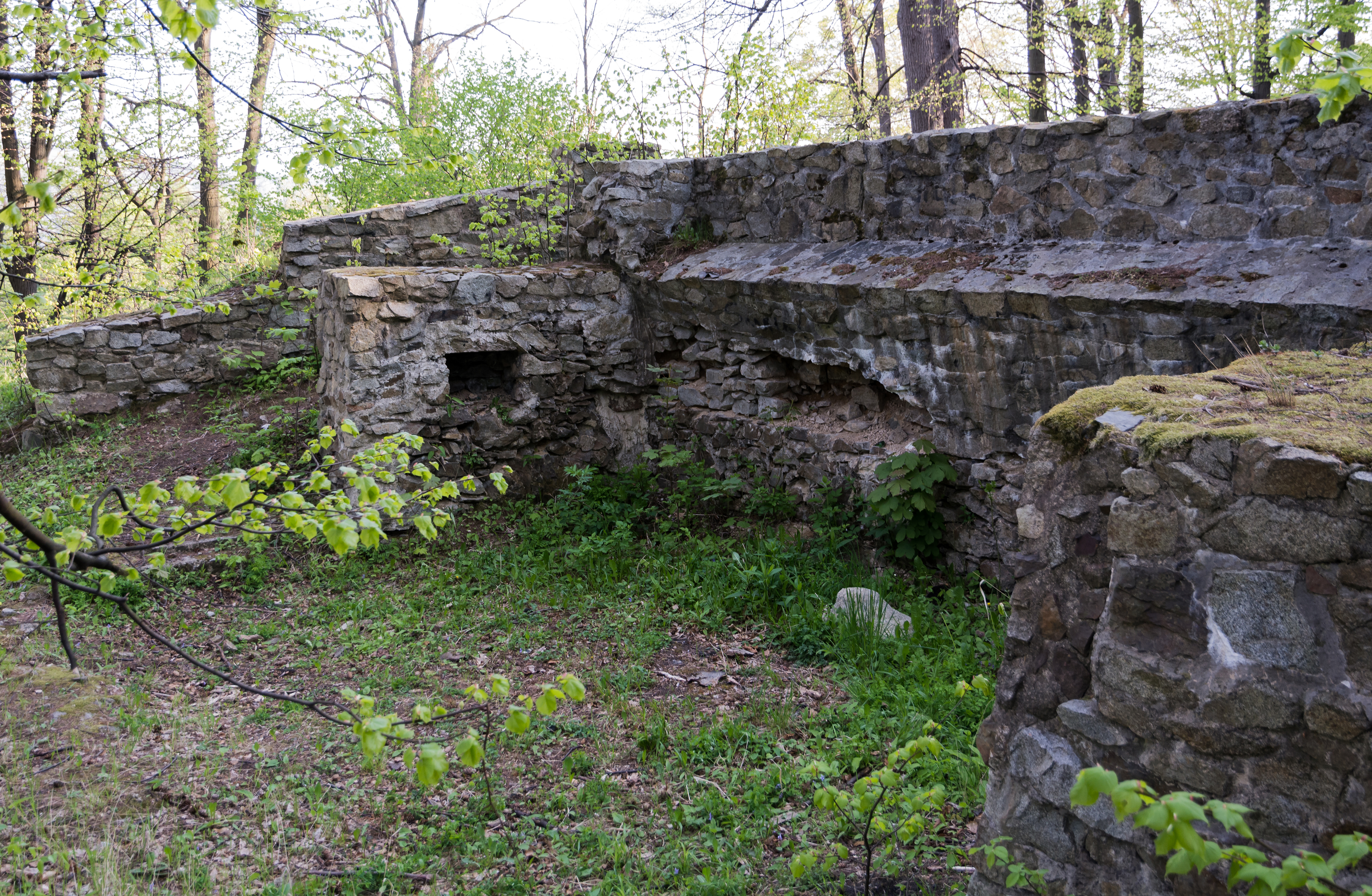 Bardo Castle